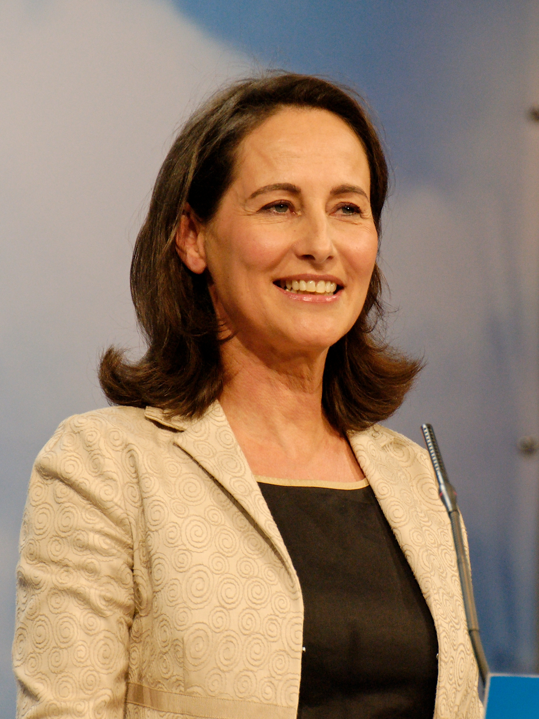 Ségolène Royal at a meeting held on Feb. 6, 2007 by the French Socialist Party at the Carpentier Hall in Paris.